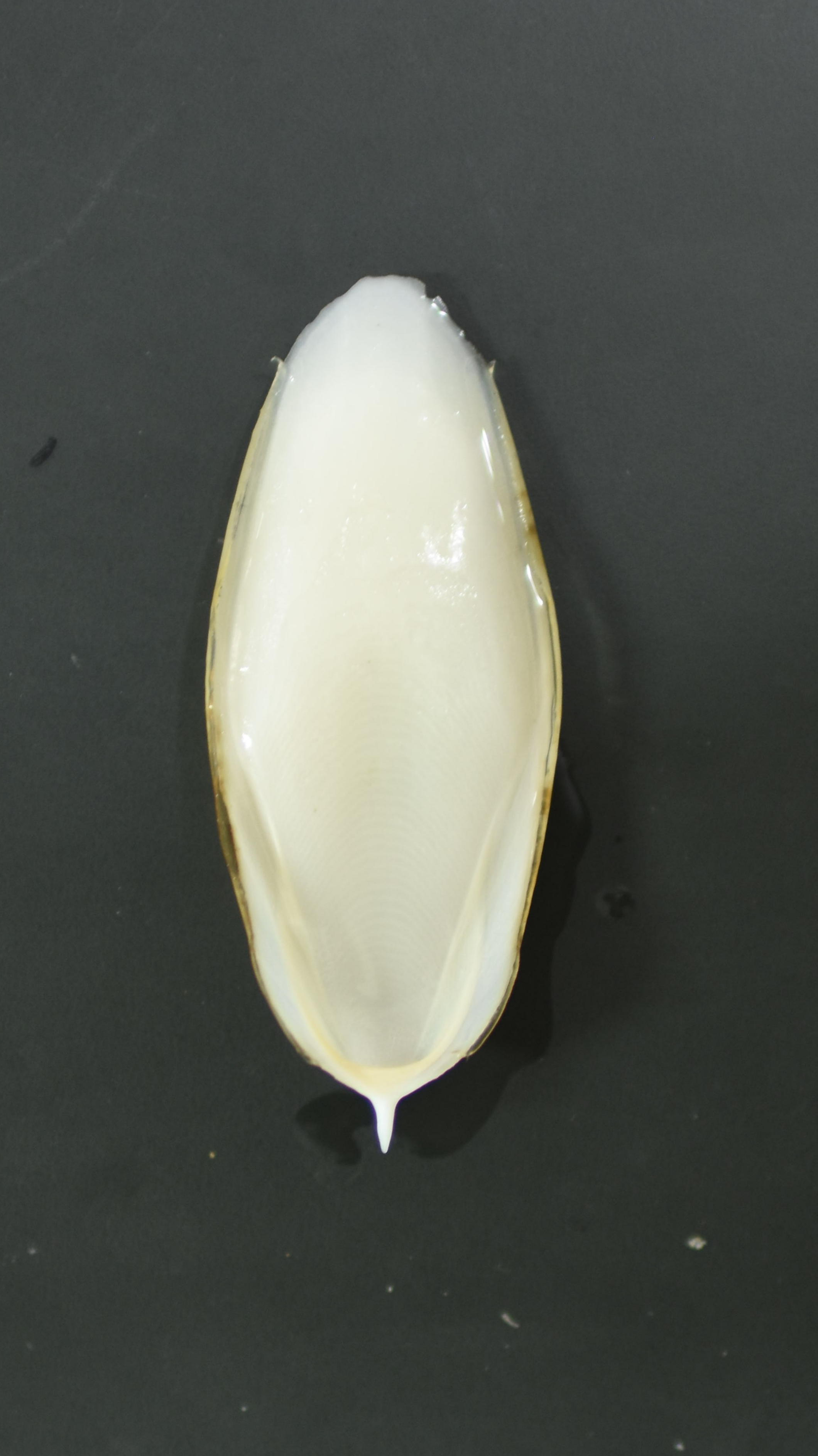 A shell (cuttlebone) of Sepia esculenta Hoyle, 1885. Collected in Futonjima-island, Hyogo pref. The inner cone is well developed and U-shaped.